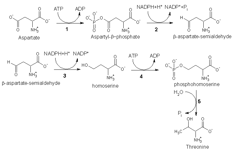 Created by Inositol using ACD ChemSketch 8.0 Freeware.